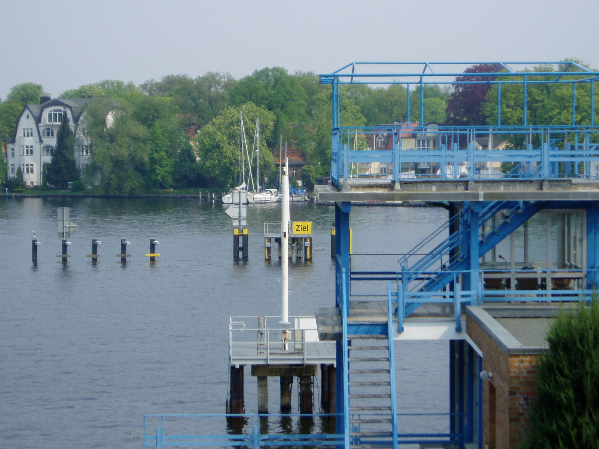 finish line of the Regattastrecke Berlin-Grünau